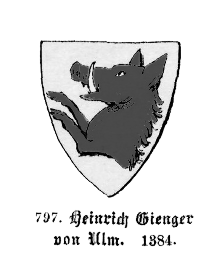 Coats of Arms of Heinrich Gienger, Ulm 1384